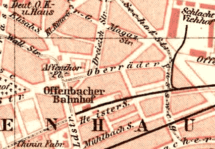 Frankfurt city map, 1893, Old Sachsenhausen in the north, Ape's Gate (center) and Offenbach Station.